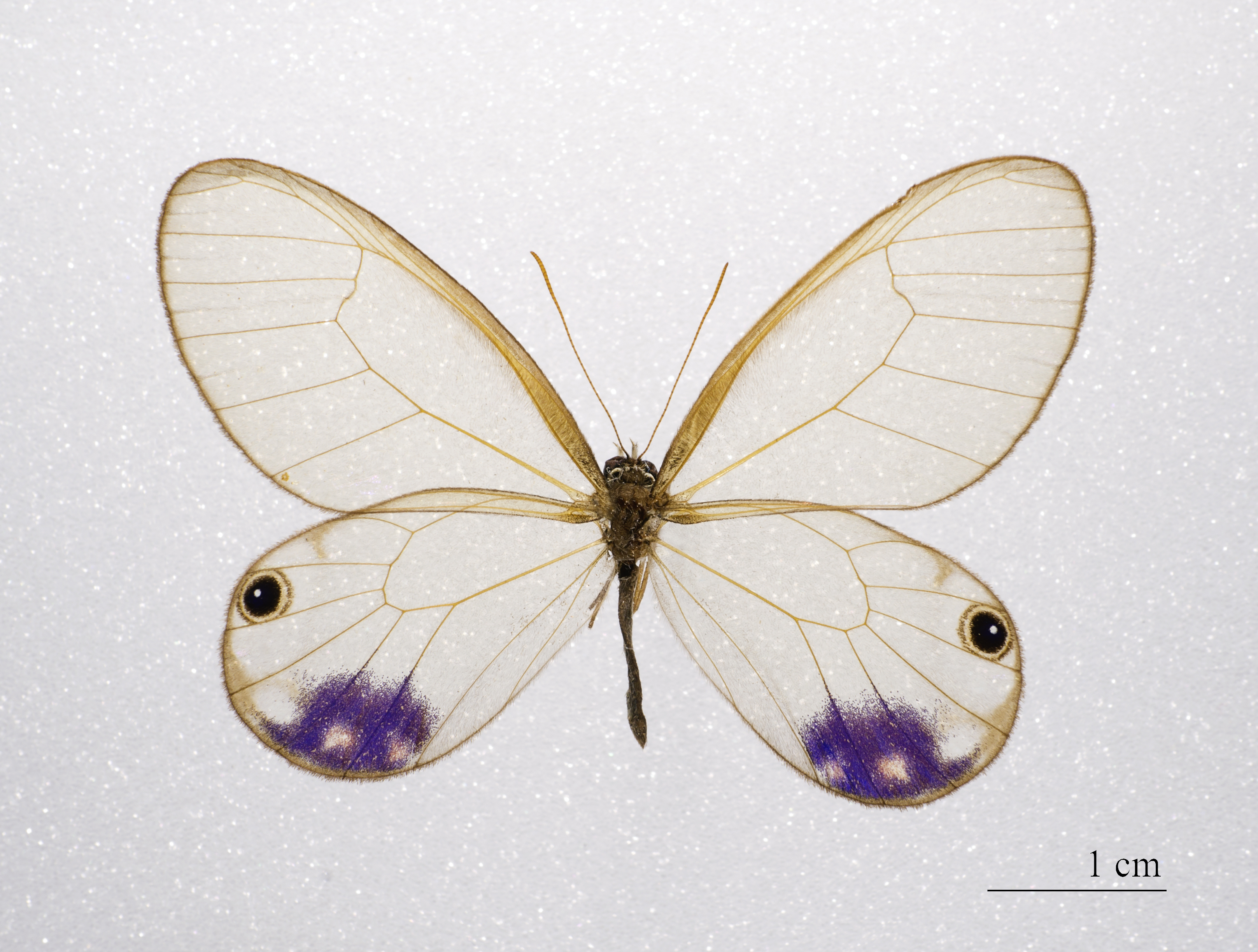 Male specimen Locality: Obidos, Pará, Brasil TL